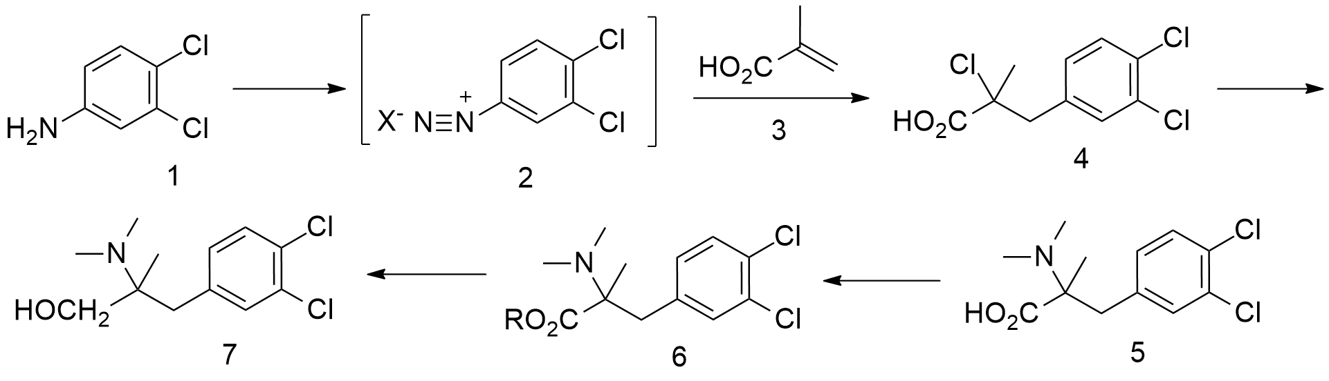 US6121491